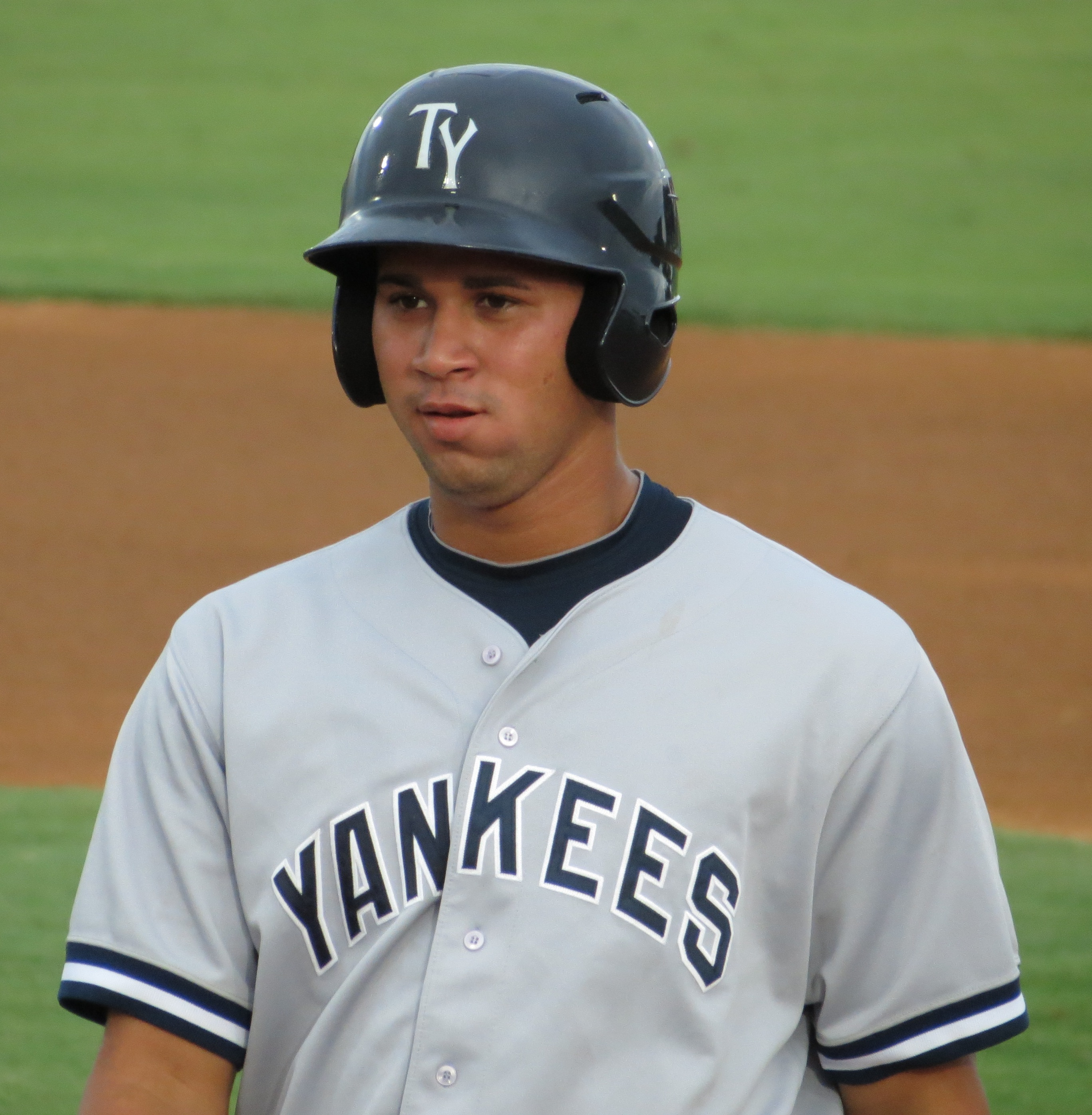 New York Yankees prospect Gary Sanchez